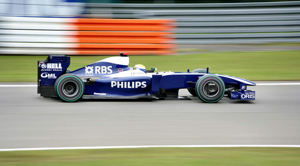 Nico Rosberg driving for WilliamsF1 at the 2009 German Grand Prix.